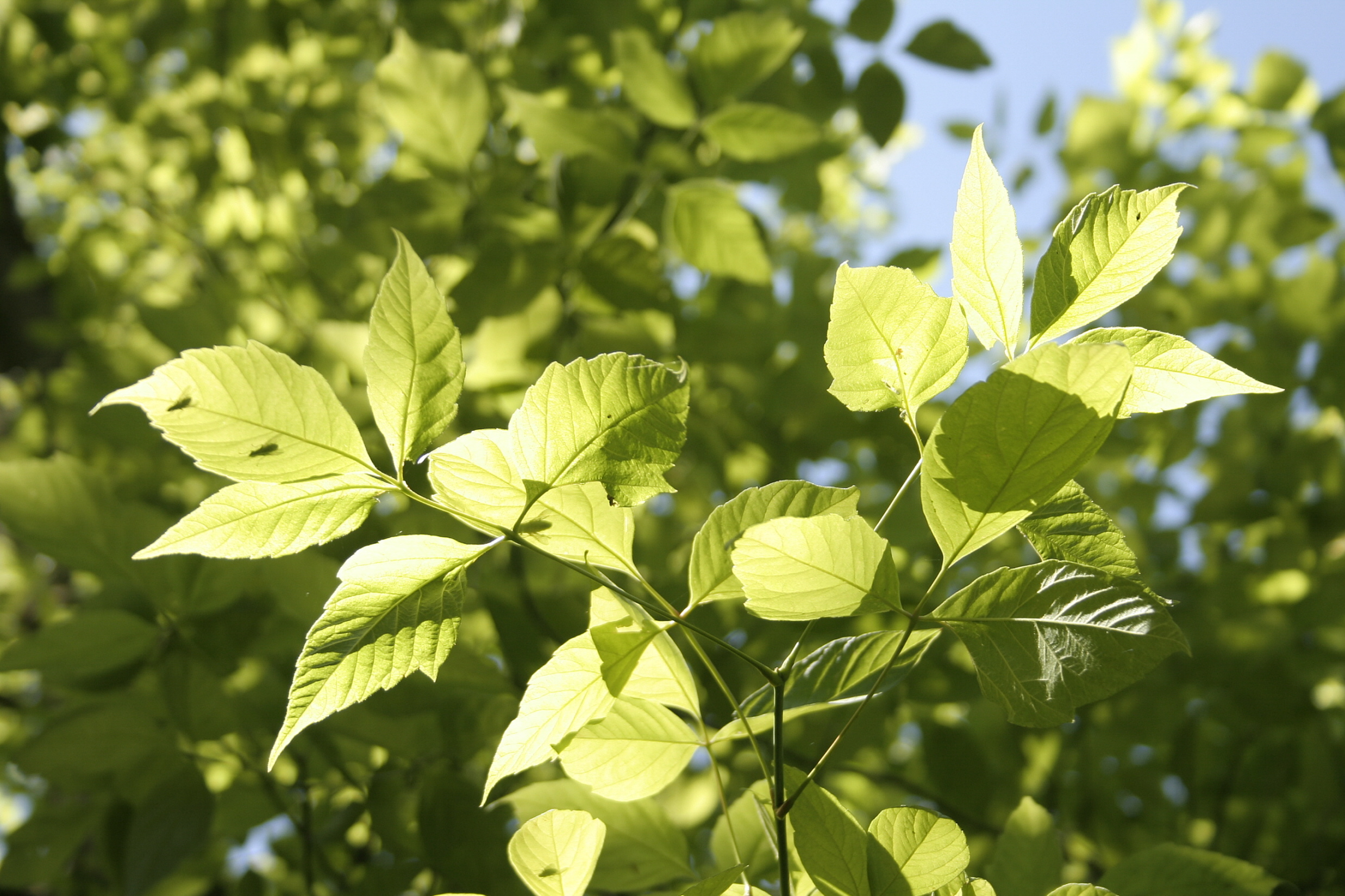 Box Elder , Boxelder Maple , Maple Ash or Manitoba Maple leaves